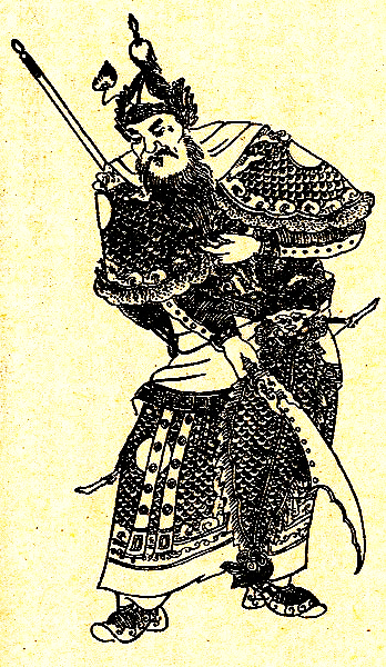 Portrait of Huang Zhong from a Qing Dynasty edition of the Romance of the Three Kingdoms